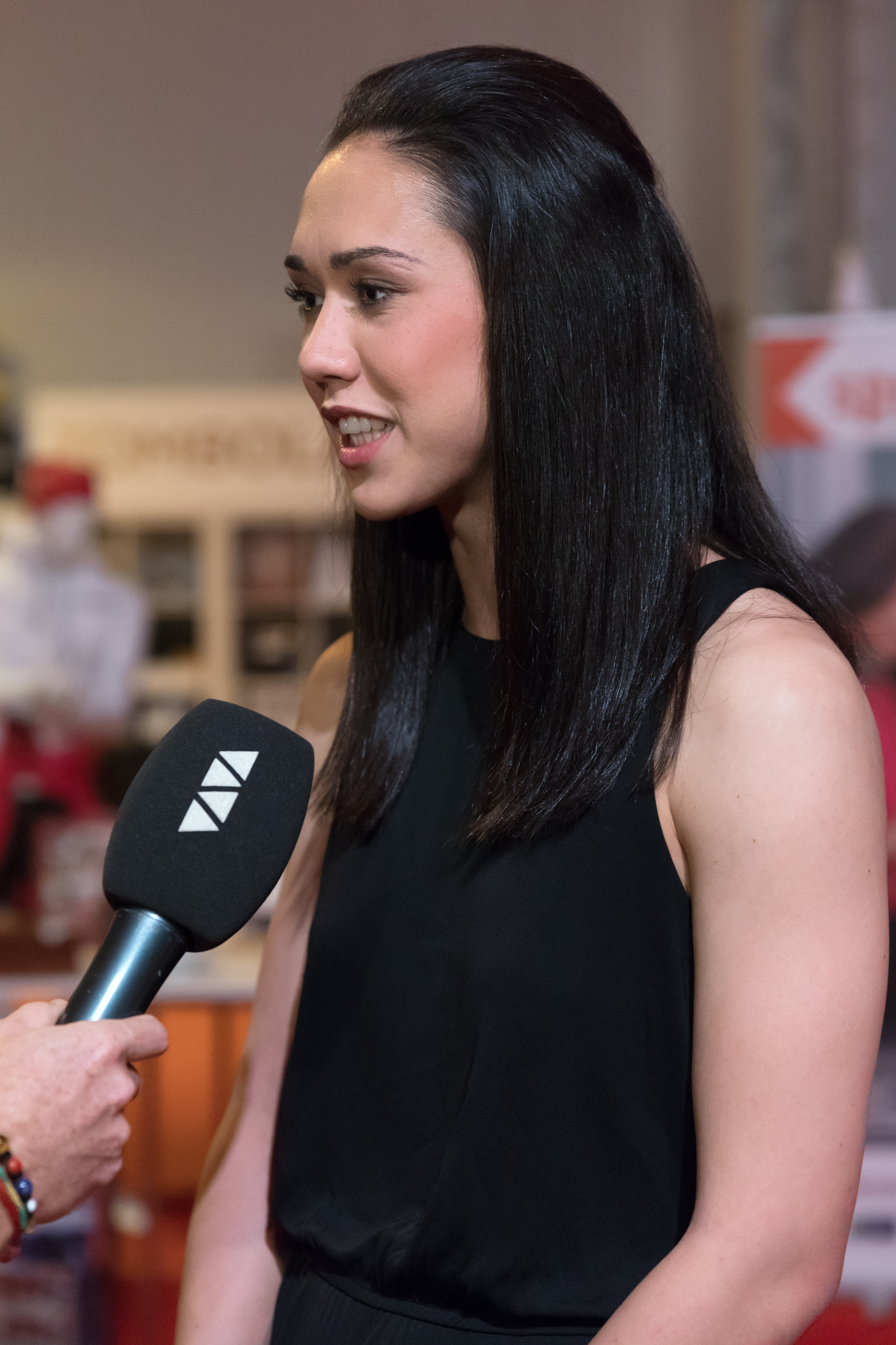 Manuela Zinsberger, as a member of the Austrian women's national football team nominated for Austrian Sports Team of the Year 2017, at Marx Halle (Sankt Marx, Vienna, Austria).